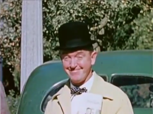 Stan Laurel in a still from the short film "The Tree in a Test Tube", time code: 00:24 (format: minutes:seconds)